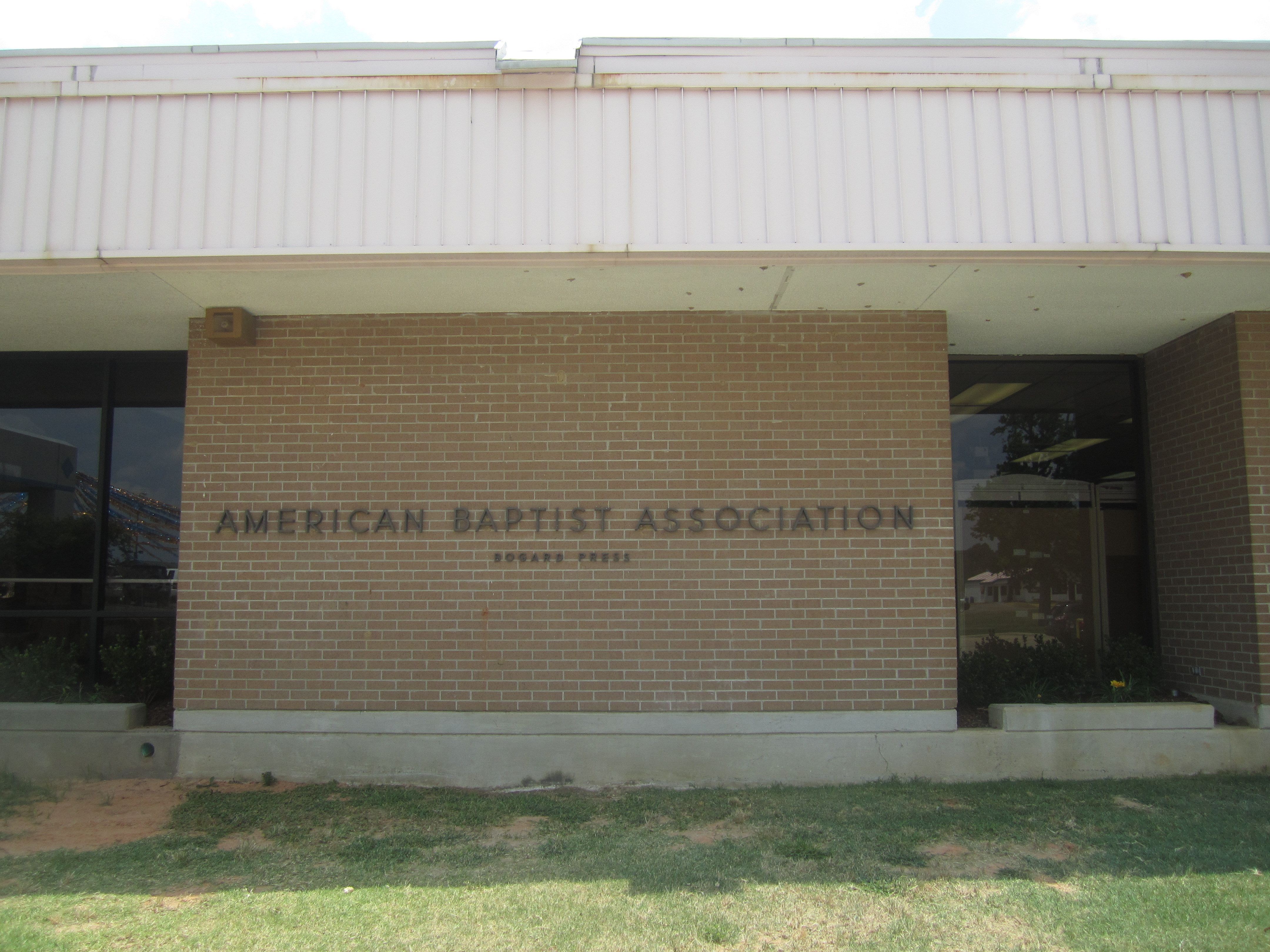 I took photo of American Baptist Building and Bookstore in Texarkana, TX, on June 9, 2012, with Canon camera. Billy Hathorn (talk) 21:39, 28 June 2012 (UTC)